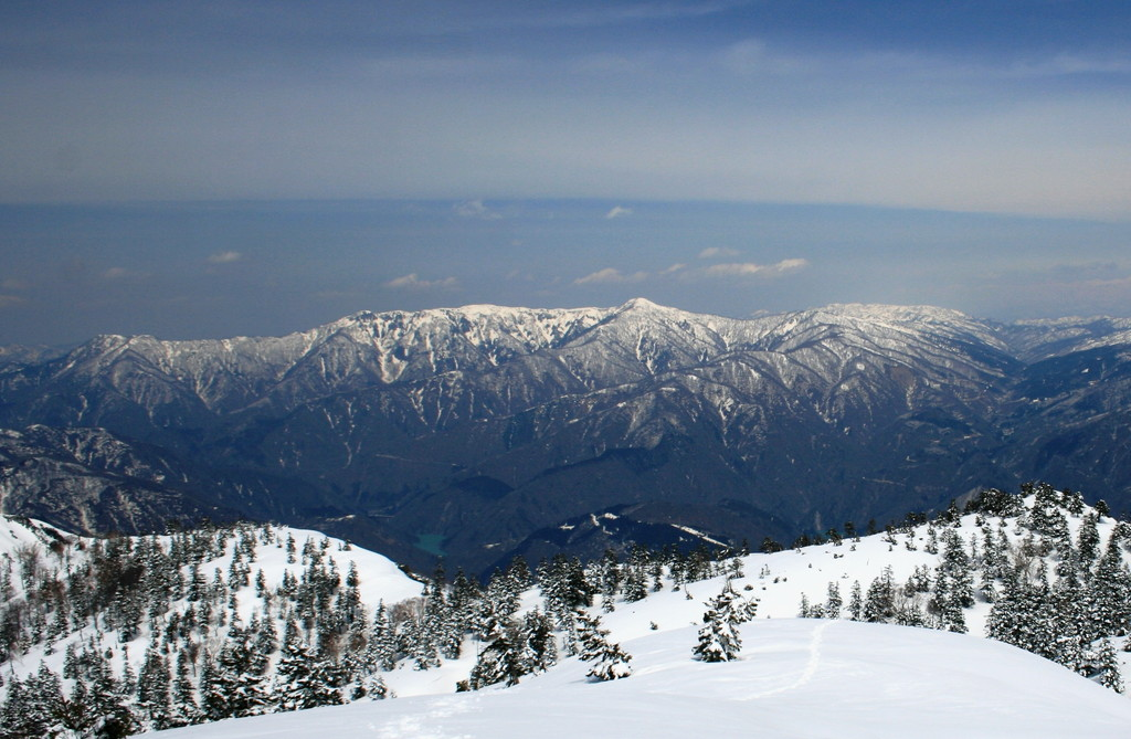 Ningyouzan_from_notanishoujiyama